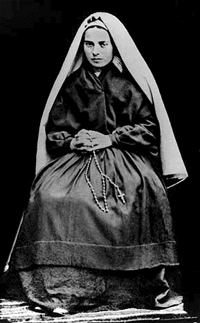 Bernadette Soubirous (1844-1879).